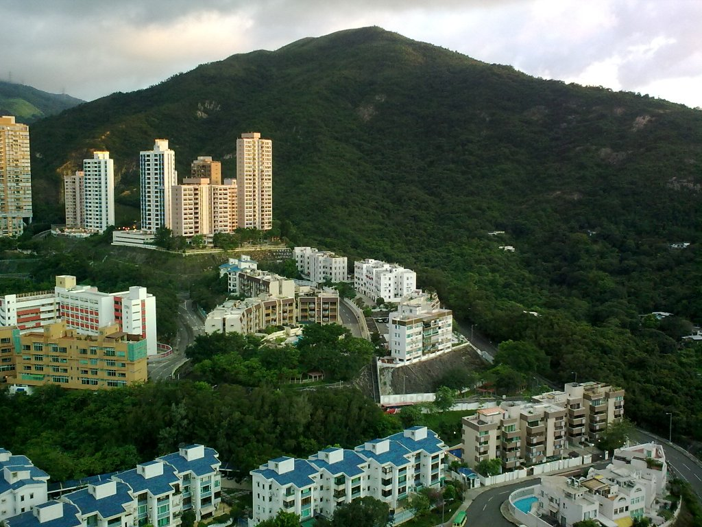 Jubilee Garden flat facing hill side